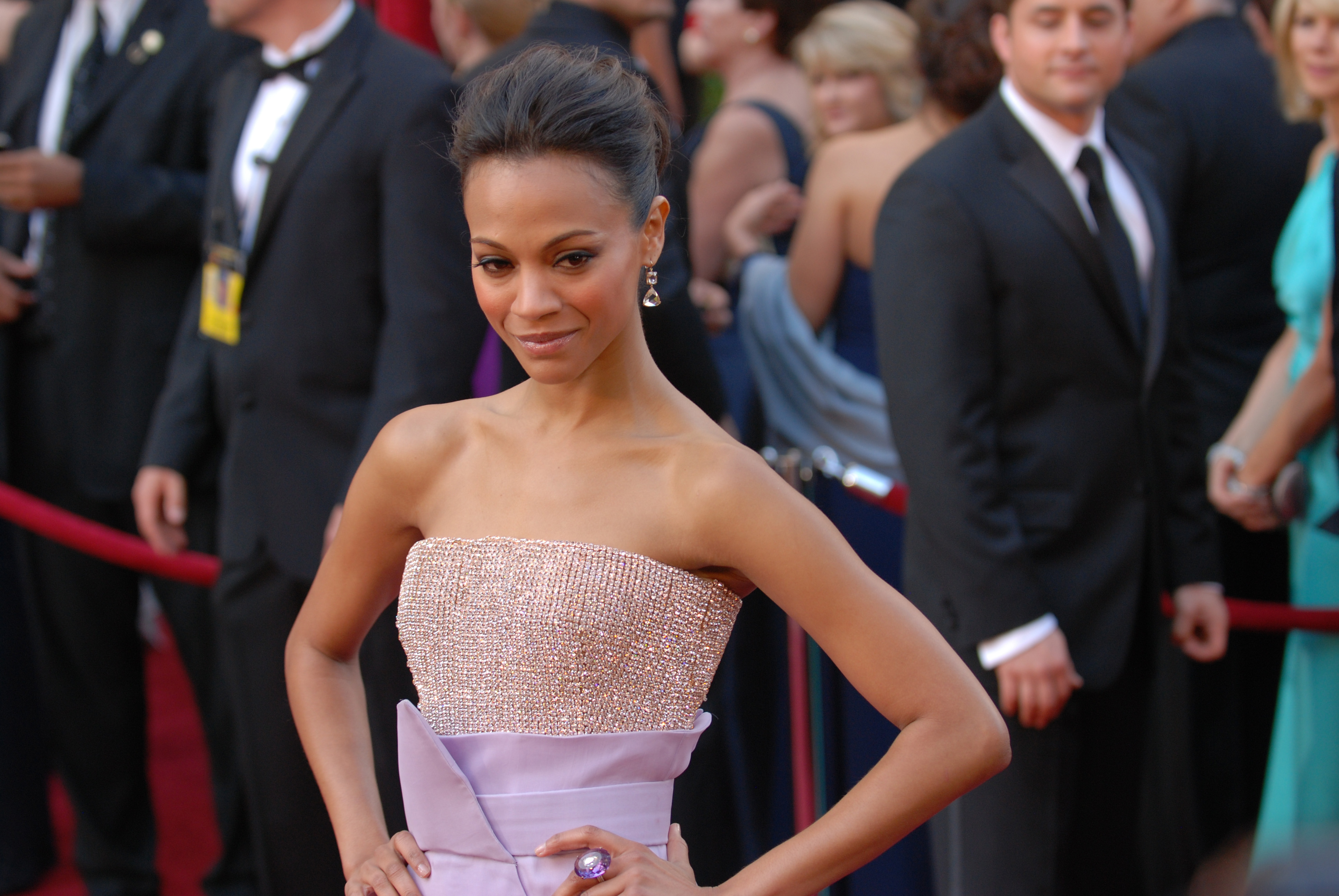 Zoe Saldana, Neytiri from "Avatar", arrives at the 82nd Academy Awards.